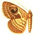 PLATE CCIII.